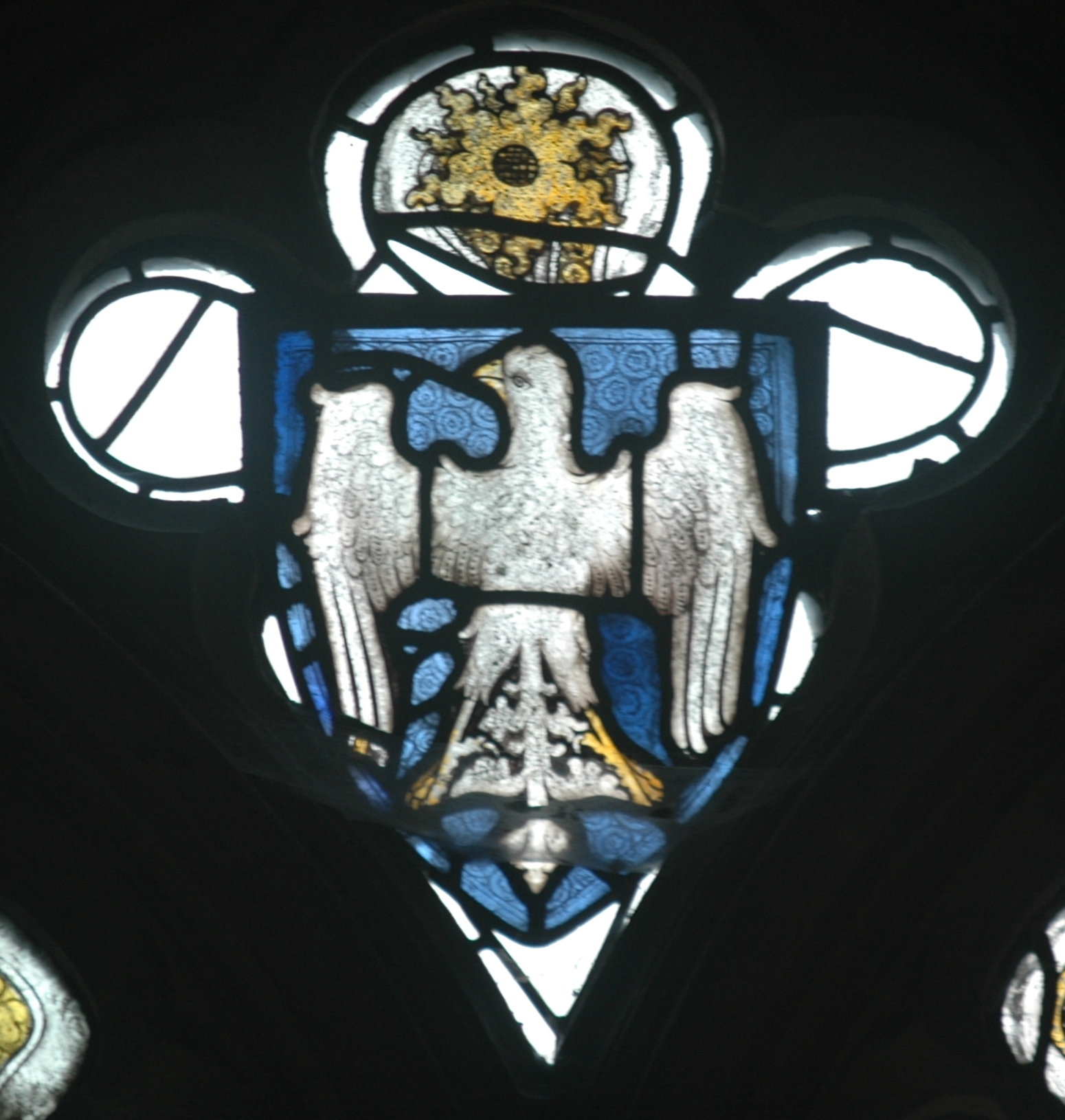 Stained glass heraldic image of white eagle on blue shield in east window of Wilcote chantry chapel in St Mary's parish church, North Leigh, West Oxfordshire, England